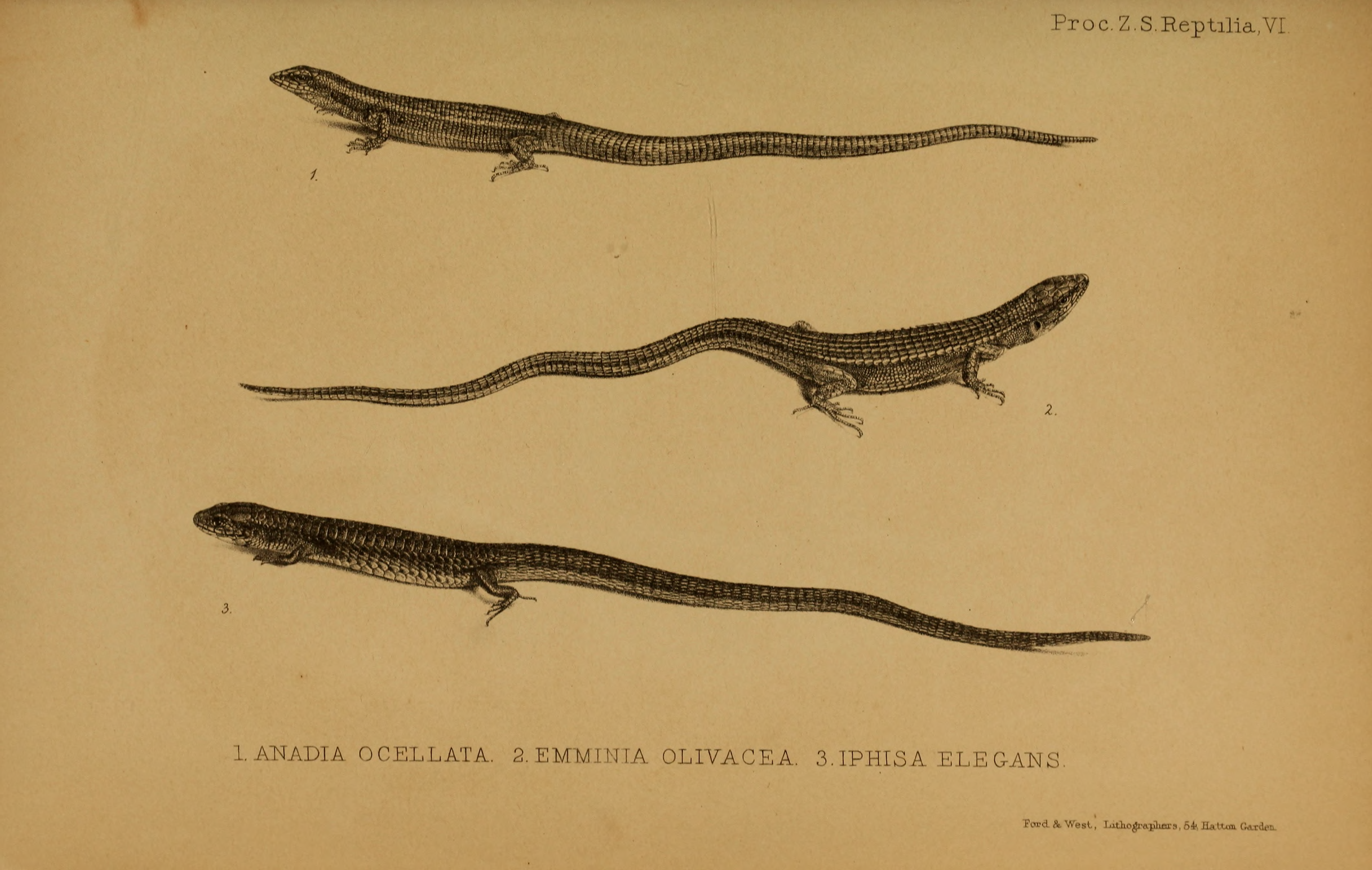 Three species of spectacled lizards: Ocellated Anadia Ocellated Tegu Glossy Shade Lizard